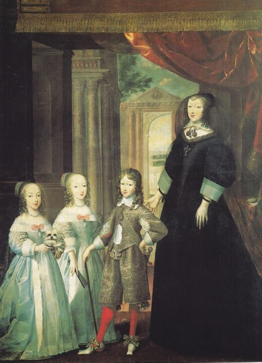 Christine of France, dowager duchess of Savoy, with her children